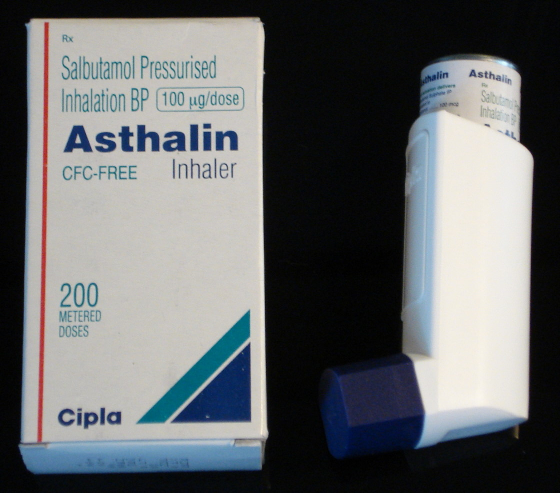 Cipla CFC-free inhaler (Generic Ventolin)